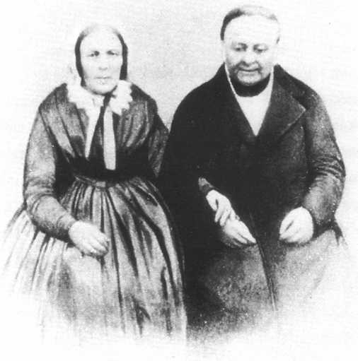 Johann Gottfried Schuncke (1777 - 1861) and his wife Elisabeth at their golden wedding anniversary 11. April 1860Unknown